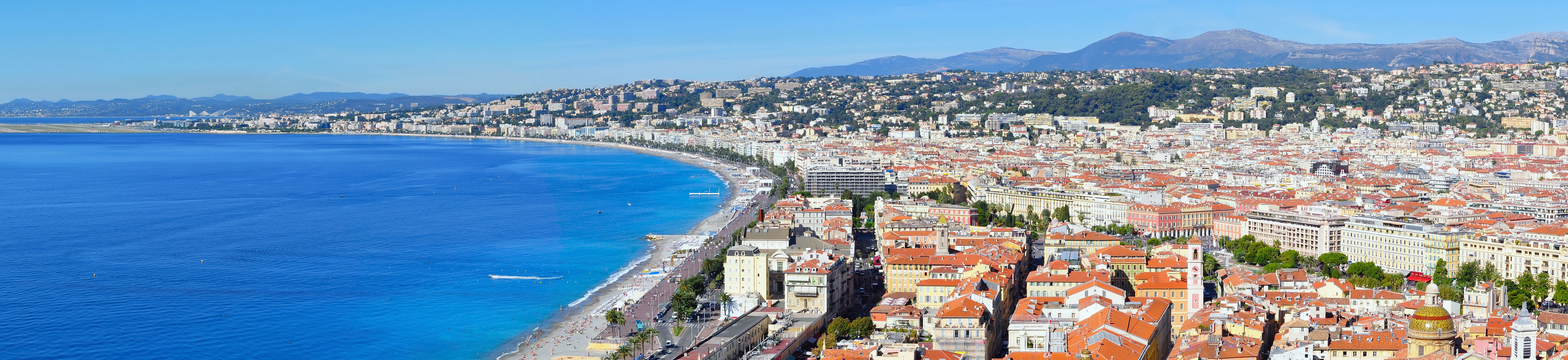 Panoramic view of the old city and the Promenade des Anglais in Nice, on the French Riviera (Alpes-Maritime, Provence-Alpes-Côte d’Azur, France), from the fortress (looking westwards).